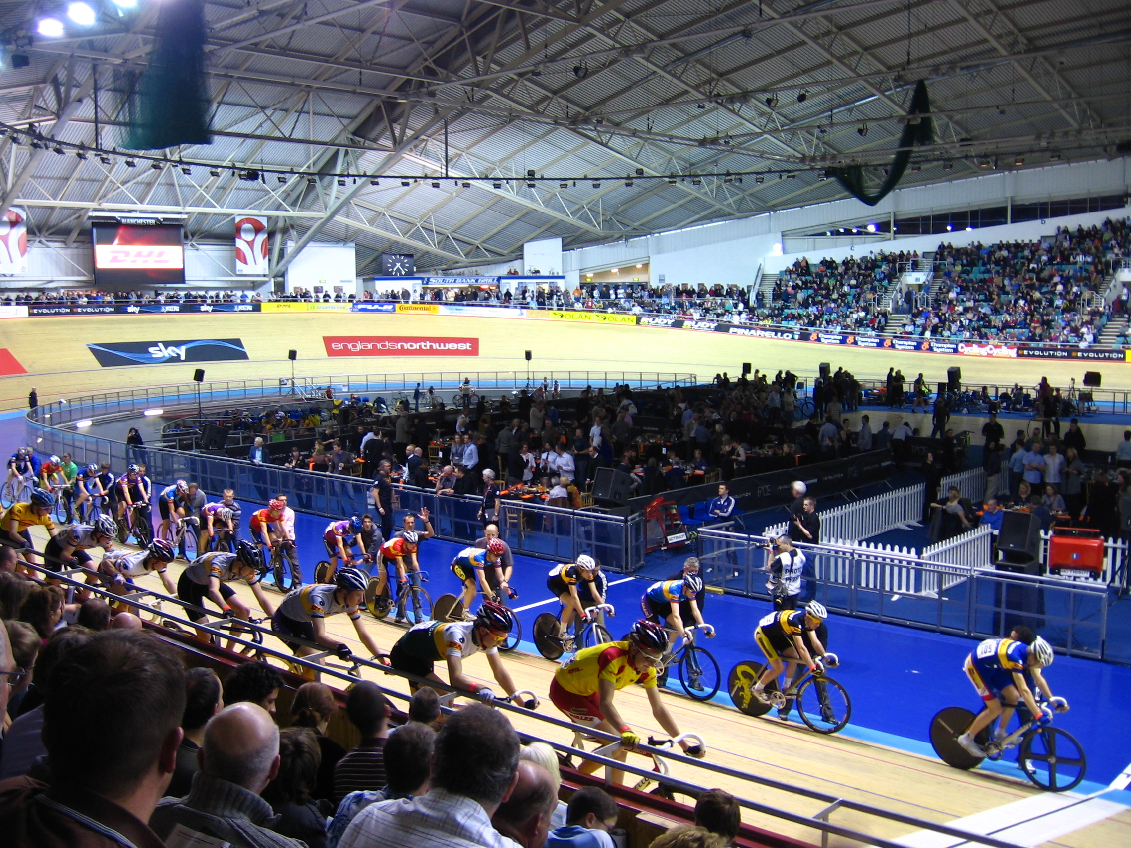 Riders on the track at Manchester Velodrome, during the Revolution 22 event.